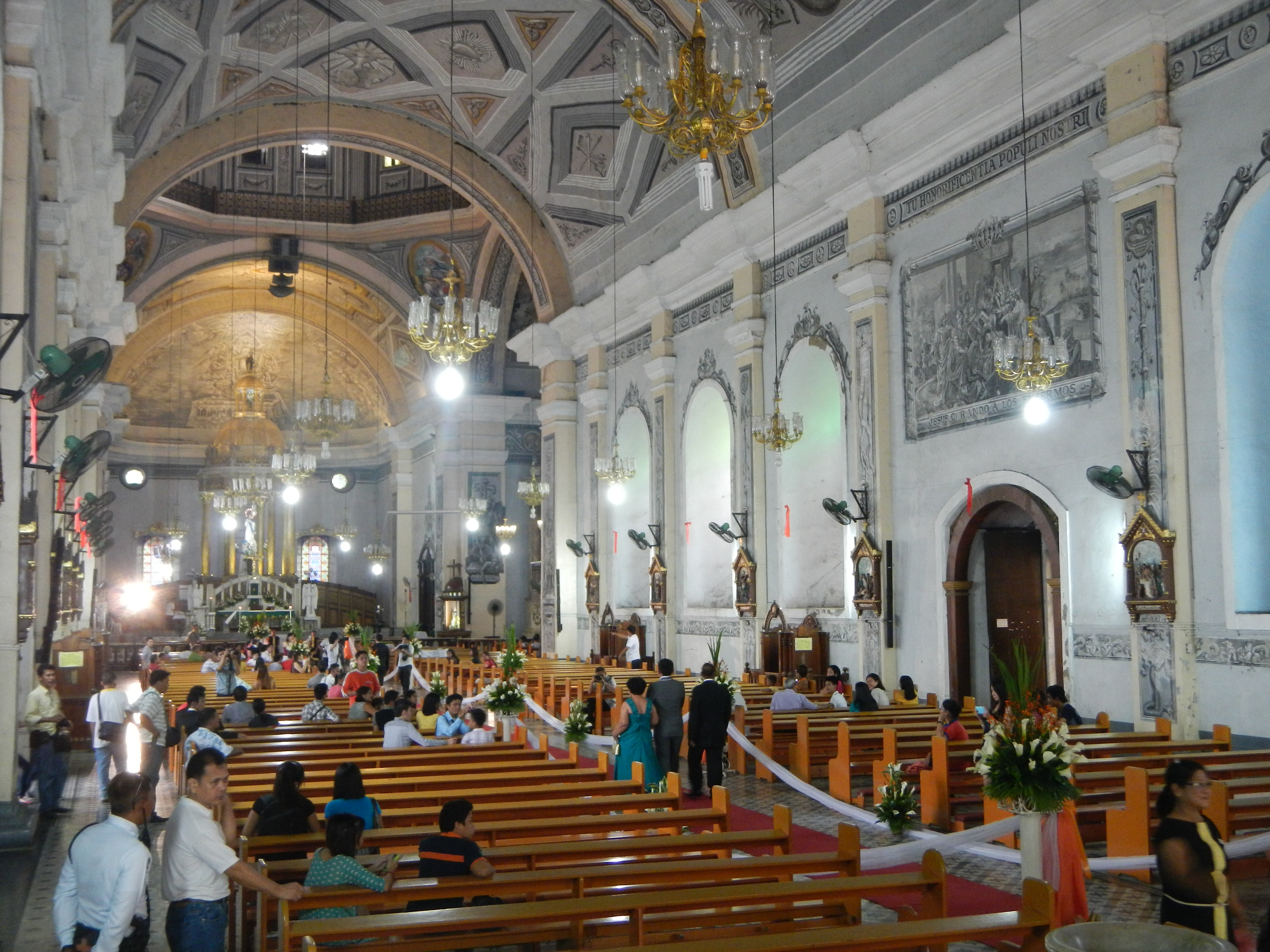 Upload Wizard -- (general description of landmarkds, town, church) - of - Basilica Minore of the Infant Jesus and Immaculate Conception of Batangas City[1] (the largest and capital city of the Province of Batangas, [2] the "Industrial Port City of Calabarzon", 2010 census, population of 305,607 people) - Minor Basilica of the Immaculate Conception was built in 1581 with improvised materials- List of basilicas [3] Coordinates: 13°45'14"N 121°3'33"E[4] belongs to the Roman Catholic Archdiocese of Lipa[5] Vicariate III: Vicariate of the Immaculate Conception Minor Basilica of the Immaculate Conception - [6] Immaculate Conception Minor Basilica, baroque-styled basilica erected in 1857 under Fr. Pedro Cuesta, declared a Minor Basilica by Pope Pius XII on February 13, 1945, first basilica, houses the original Sto. Niño ng Batangan, a miraculous statue of the Infant Jesus; [7] [8] [9] The Twelve Minor Basilicas in the Philippines [10] [11].